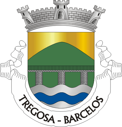 Crest of Tregosa, a parish in the municipality of Barcelos (Portugal)